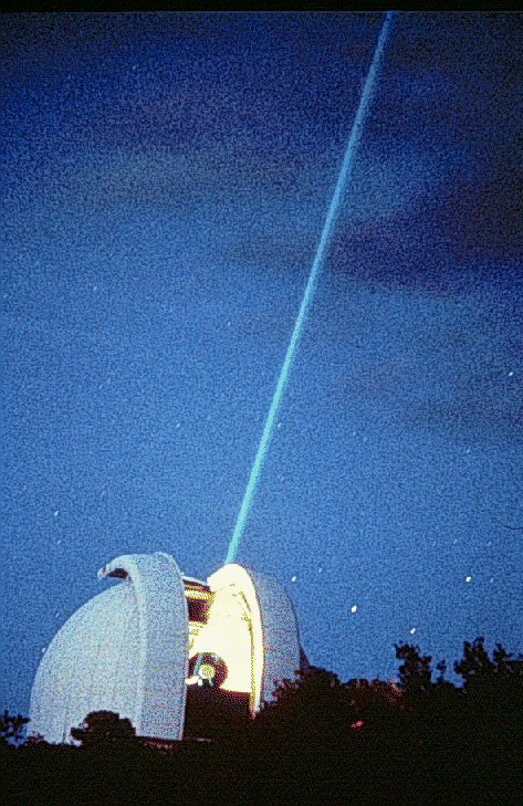 Laser from McDonald Observatory heading towards the Moon. This photo shows the McDonald Observatory shooting a laser at the retroreflectors left by the astronauts and the Russian lunar rovers. This measures the distance to the moon to very high precision, a few cm.